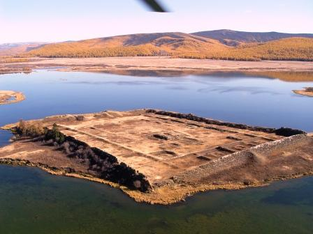 Aerial view of site of Por-Bazhyn taken from a microlight plane before start of excavation season 2007